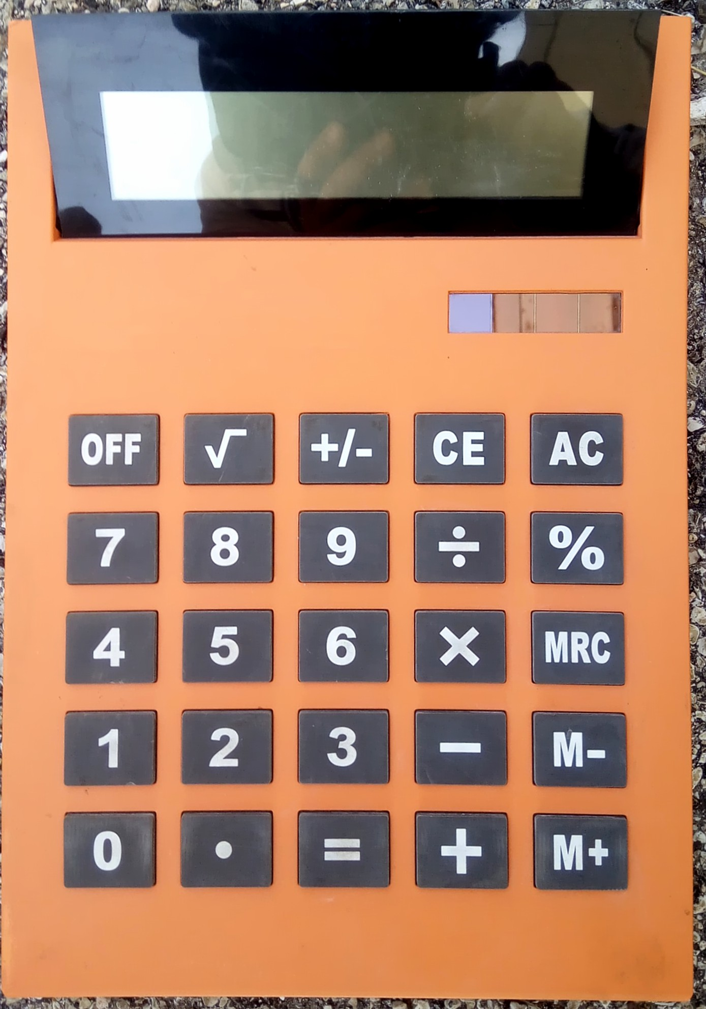 Large table tablet with dual power, battery / solar, on reclining screen.